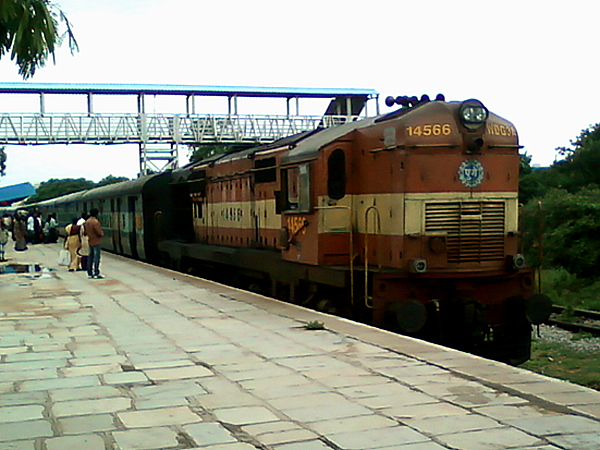 (Bijapur-Bolarum-HYB) Passenger with a WDG-3A Baldie loco of Pune Shed at Malkajgiri Railway Station, Secunderabad Loco road number: #14566 Loco class: WDG3A Loco manufactured on: 1997-04-21 Specialised in: Freight traffic Loco shed: Pune (PUNE)